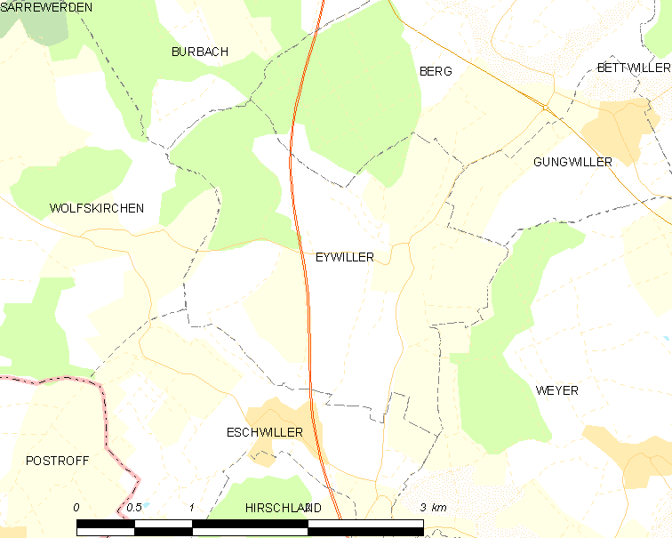 Map of French municipality